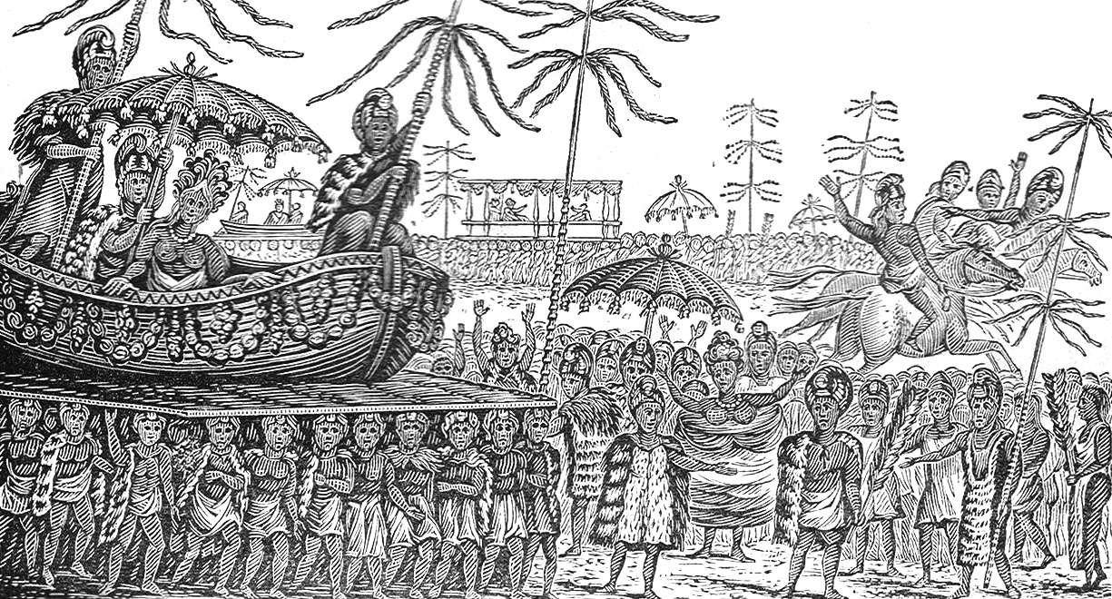 Procession to commemorate the death of King Tamaha-meha. 1823 woodcut from the Rev. Ephraim Eveleth’s History of the Sandwich Islands, published in 1829; not all editions of the books had these plates. Three of the six plates used in the book including this one are amongst the collection of the Hawaiian Mission Children’s Society Library. The celebration illustrated here was observed by missionary Charles Samuel Stewart in May of 1823 during the feast commemorating the anniversary of the death of Kamehameha I and the accession of Kamehameha II. Shown here was the spectacular parade through the streets of Honolulu village by the royal family to mark the end of that year’s commemorative festivities. Kamehameha II's wife Queen Kamāmalu presented herself to her subjects wearing a scarlet paʻū and a coronet of feathers while carried aloft in an elegantly decorated whale boat. Two high-ranking chiefs, Kalanimoku and Naʻihe, attended her.